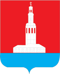 Usolie (Perm krai), coat of arms